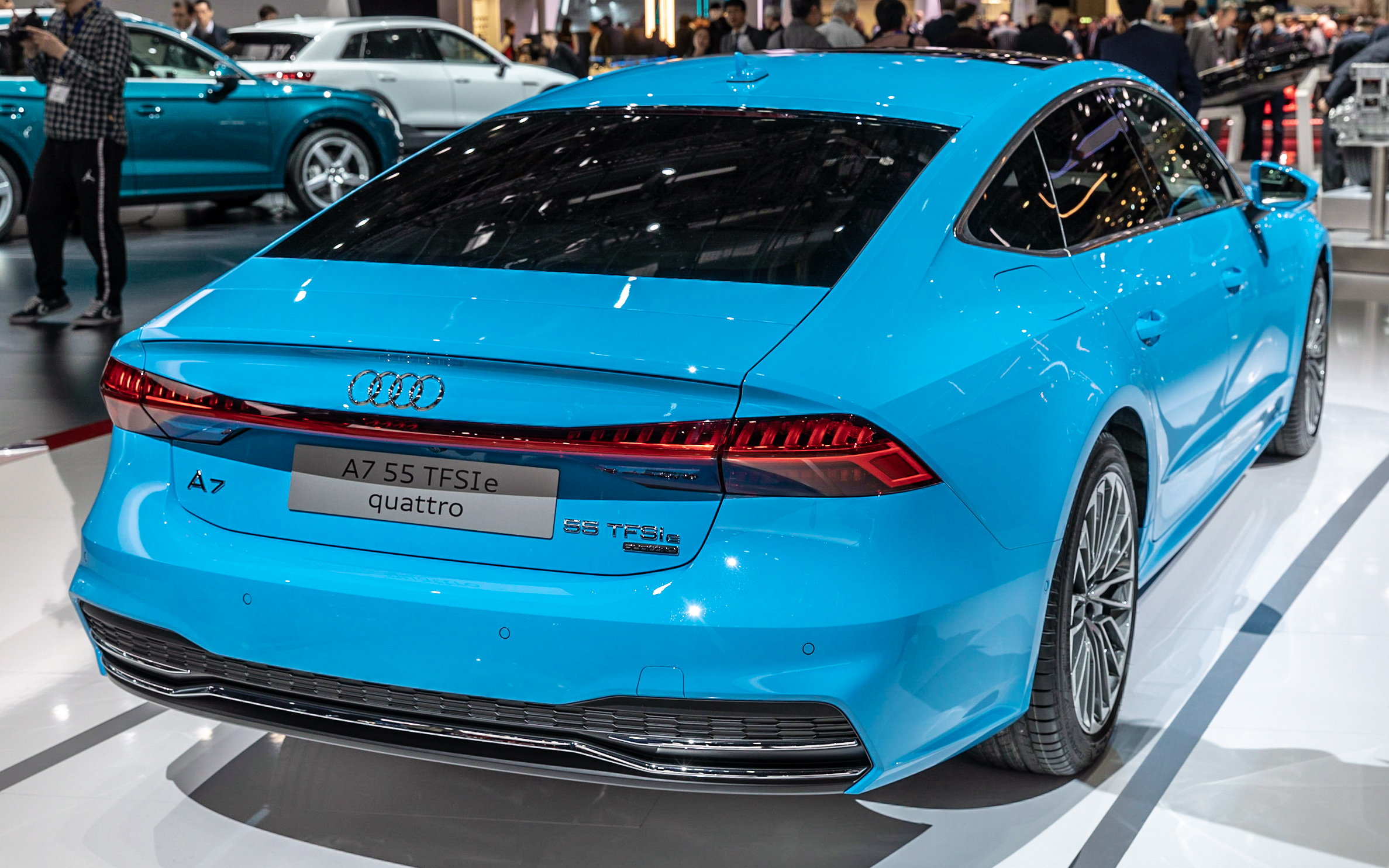 Audi at Geneva International Motor Show 2019, Le Grand-Saconnex